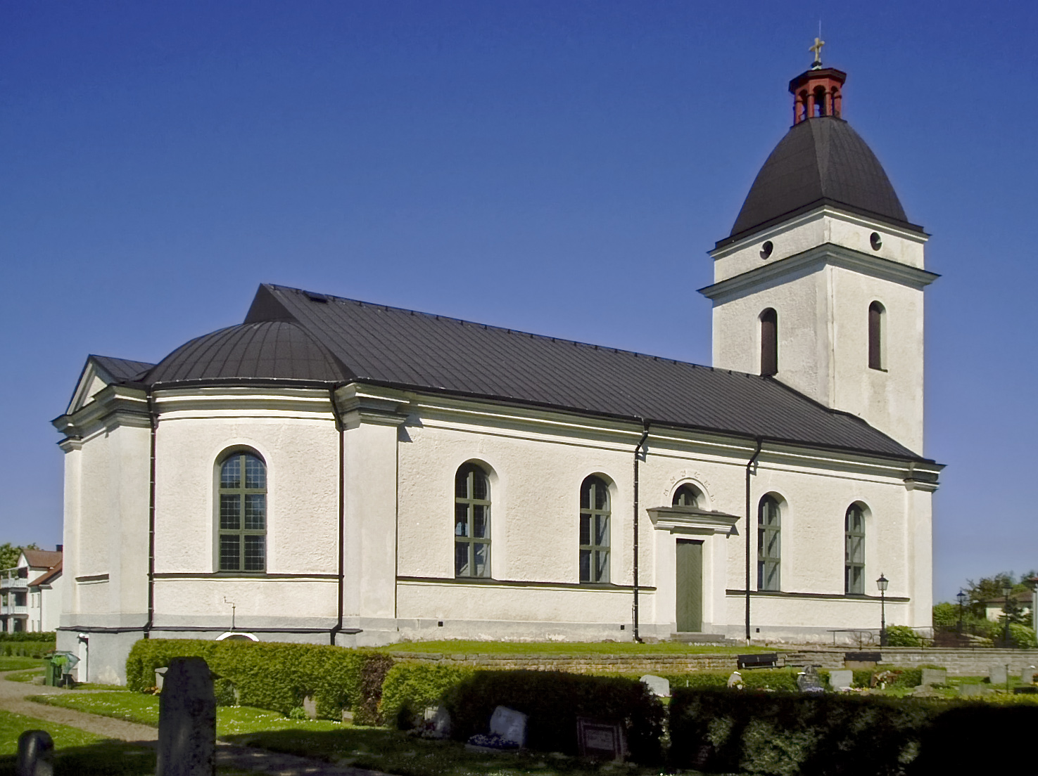 Church at Väderstad, Östergötland, Sweden